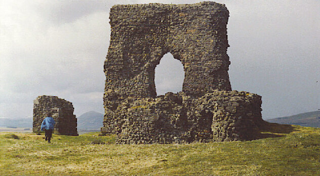 Dunnideer Castle.